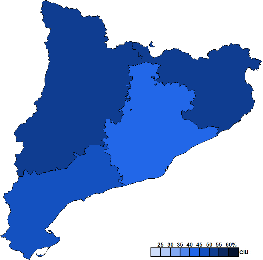 Provincial results for the 1992 Catalan regional election.